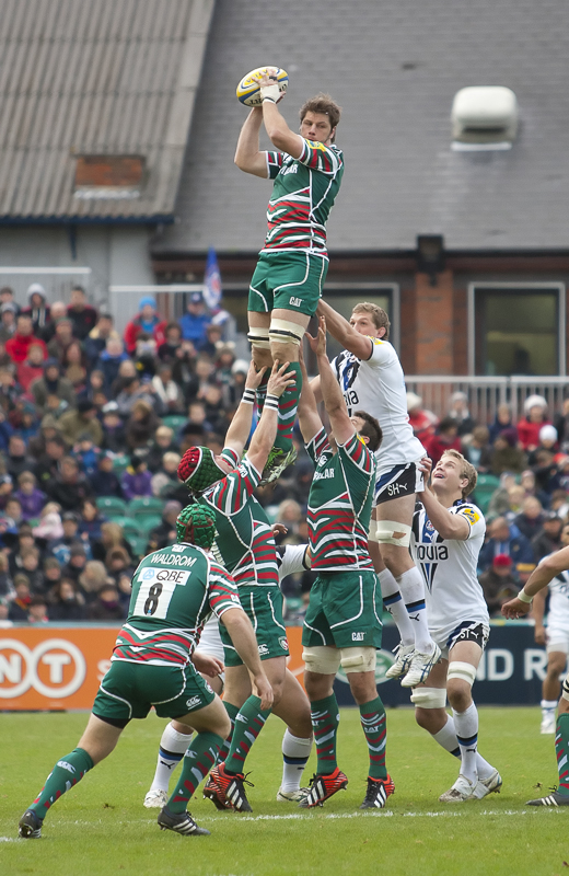 Brett Deacon is lifted high by his team mates. Leicester Tigers vs Bath, Aviva Premiership, Welford Road, Saturday 1st December 2012